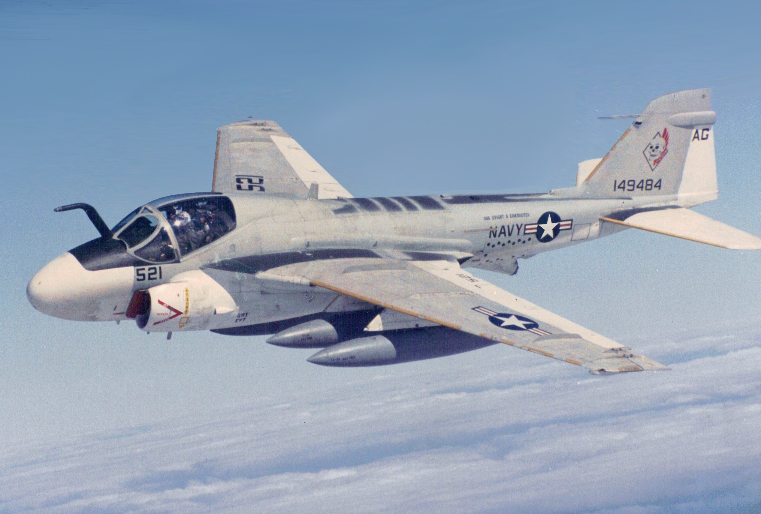 A U.S. Navy Grumman KA-6D Intruder (BuNo 149484) from Attack Squadron 34 (VA-34) "Blue Blasters" in flight. VA-34 was assigned to Carrier Air Wing 7 (CVW-7) aboard the aircraft carrier USS Dwight D. Eisenhower (CVN-69) for a deployment to the Mediterranean Sea from 29 February to 29 August 1988.